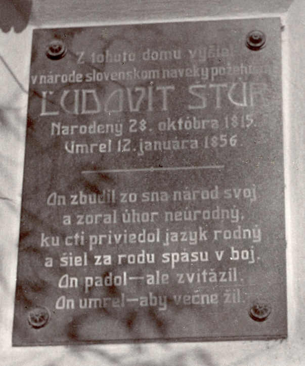 Tablet on mother house Ľudovíta Štúra (1815 – 1856)